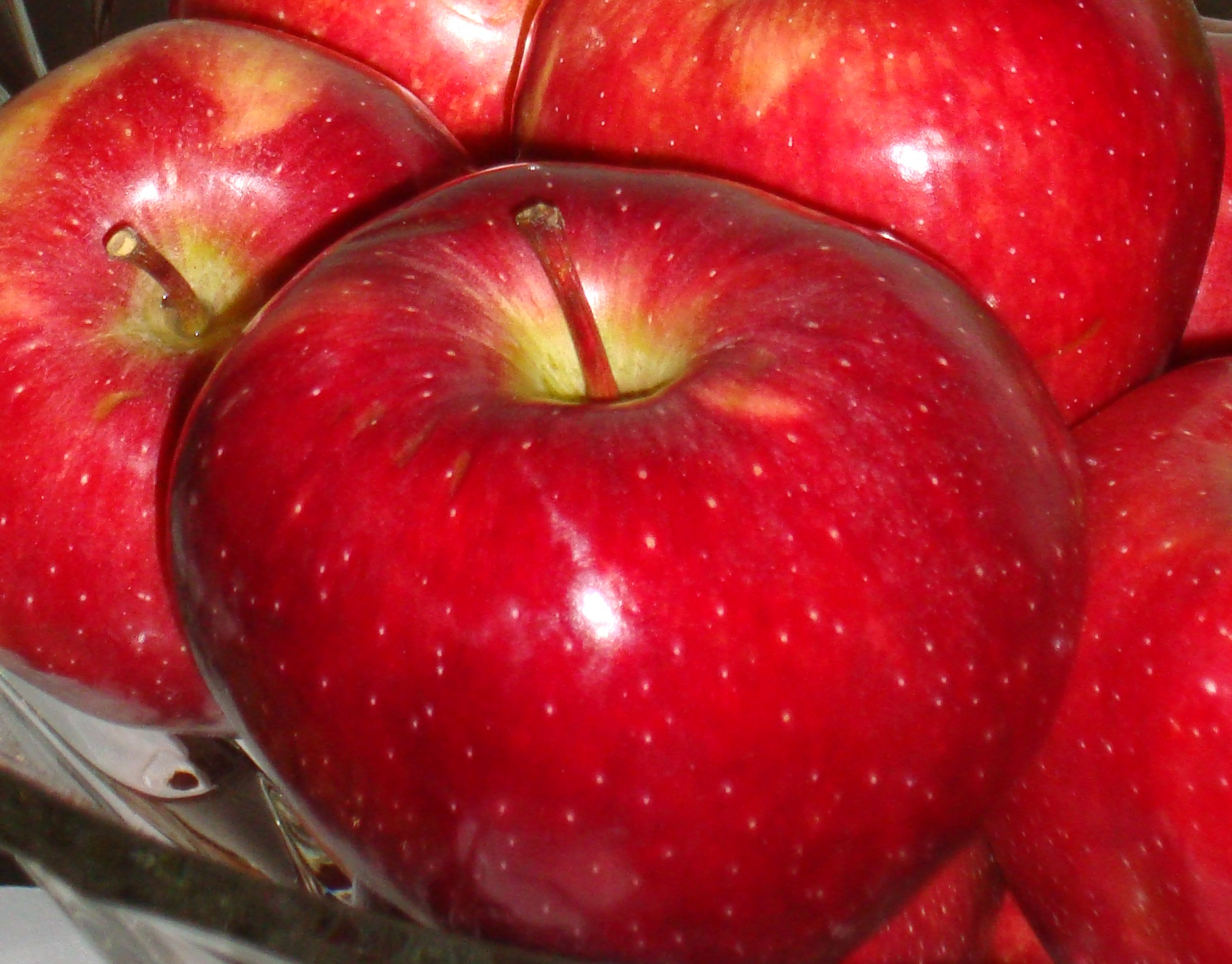 Red Apples